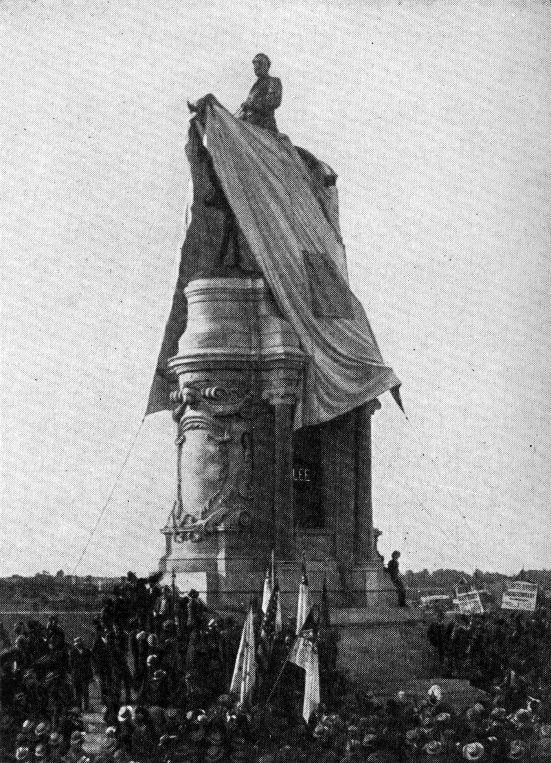 Unveiling of the Equestrian Statue of Robert E. Lee, May 29, 1890. Richmond, Virginia. The sculptor was Antonin Mercié